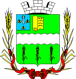 The project of the Coast of Arms of Ovidiopol, Odessa Oblast, Ukraine